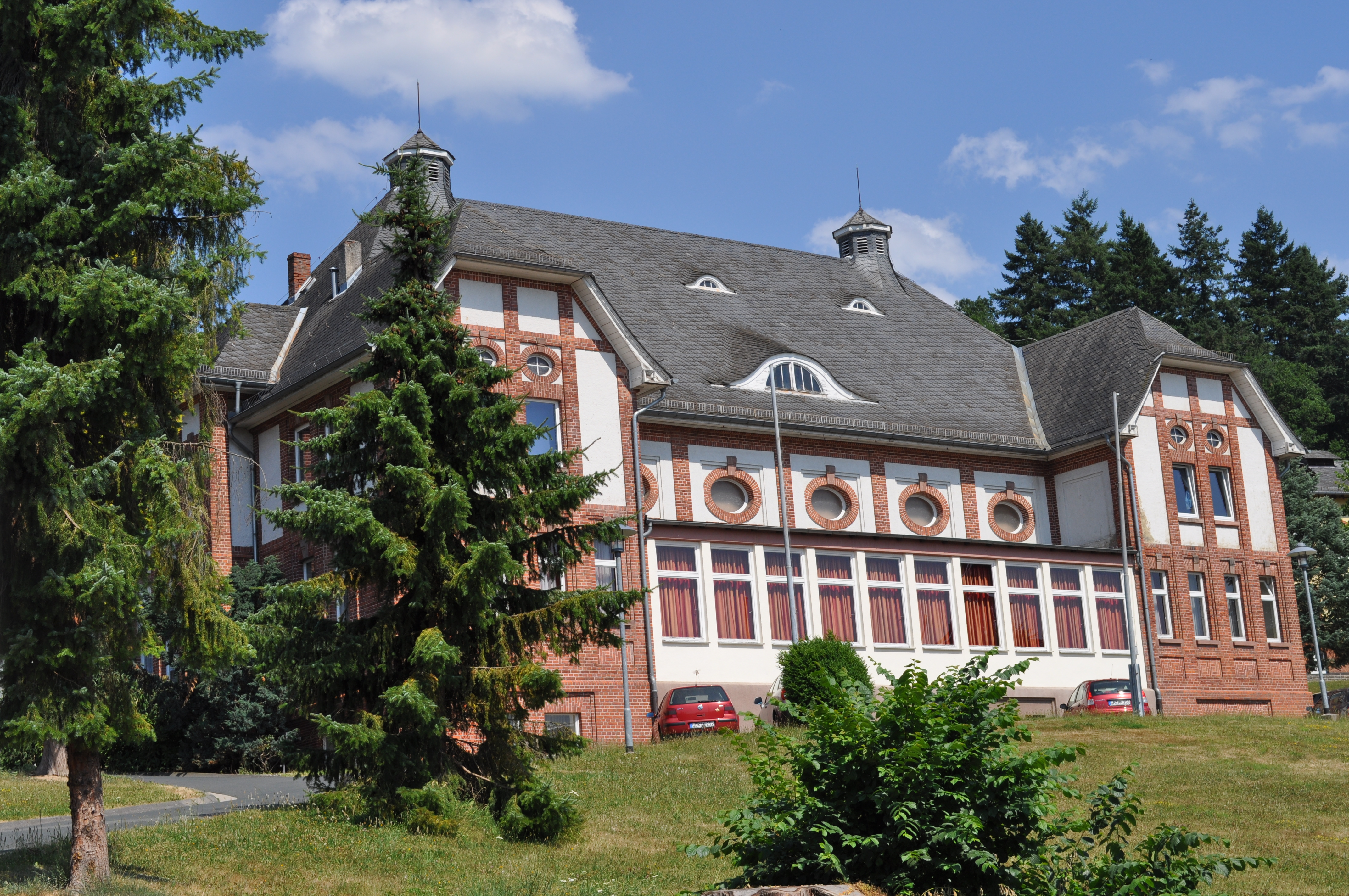 Klinikum Weilmünster, Hesse, Germany